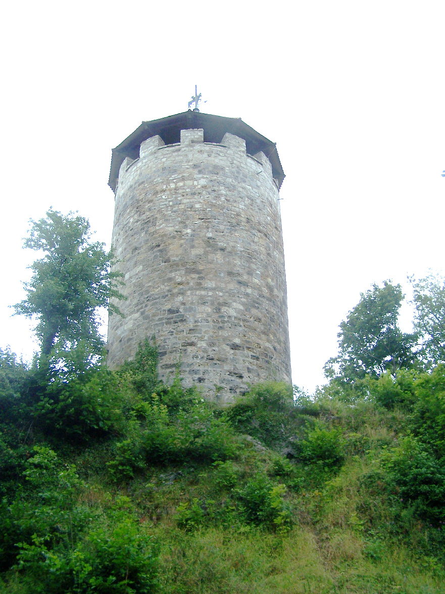 The Scharfenburg-tower.